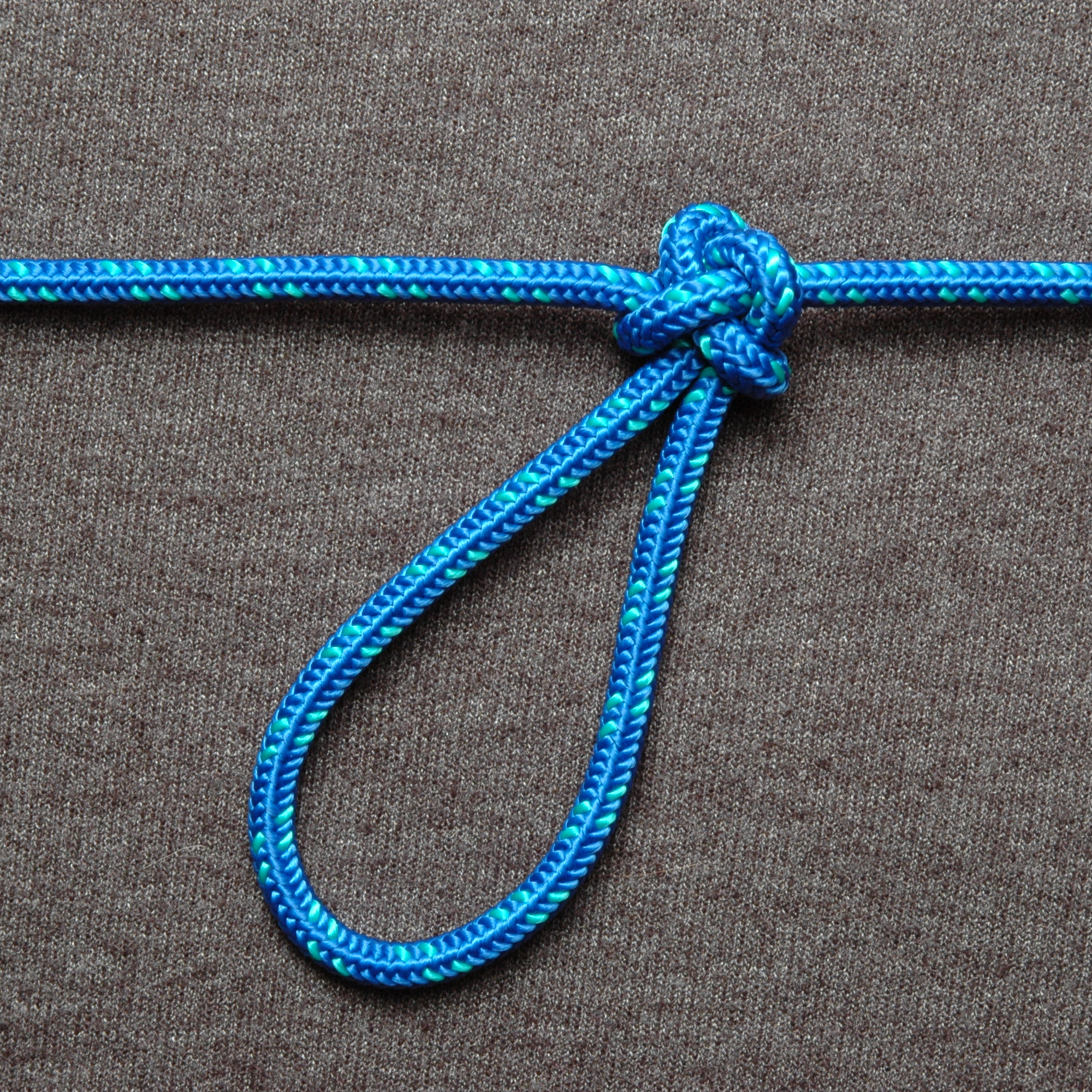 Farmer's loop knot (ABOK #1054), tightened.